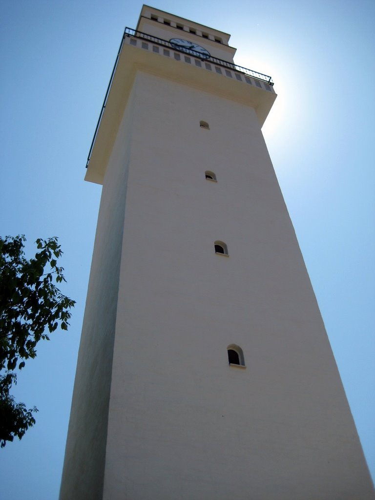 Clock tower in Gjakova. Photos from Arianit Dobroshi for Wikimedia Commons. Original Filename "arianit/Gjakova/IMG_0021.JPG"